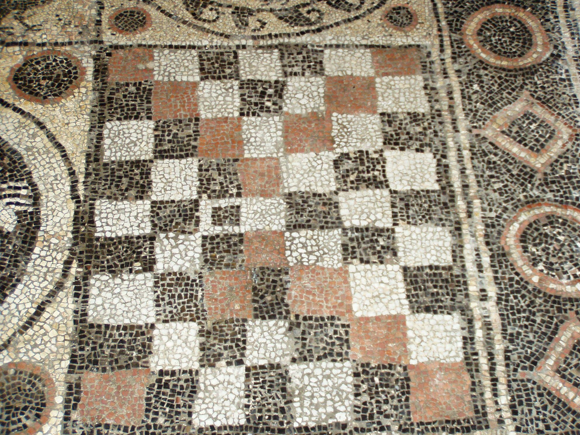 Teurnia, Carinthia, Austria: Mosaic of late Roman Baptist Church. Detail